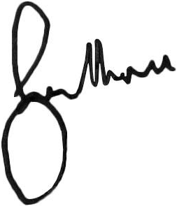 Roger Moore signature